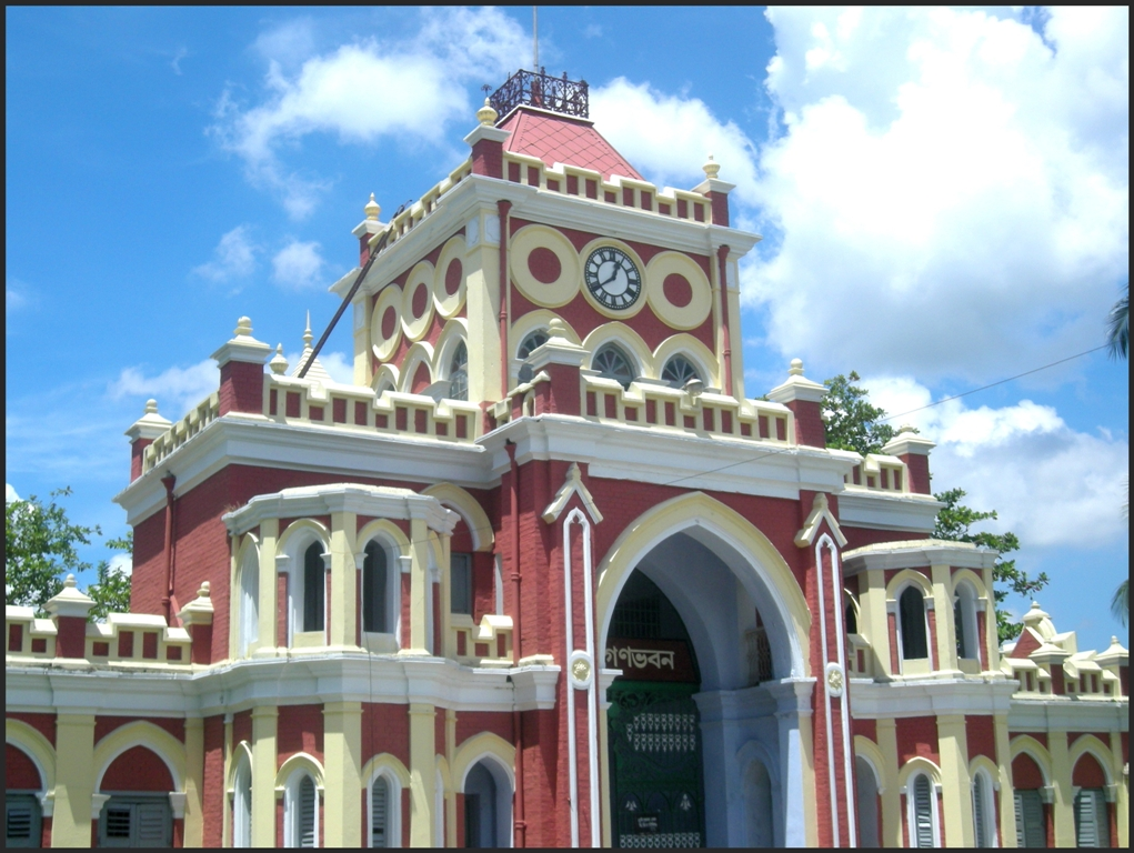 Gate of Uttara Ganavaban (famous Dighapatiya Rajbari, Natore)